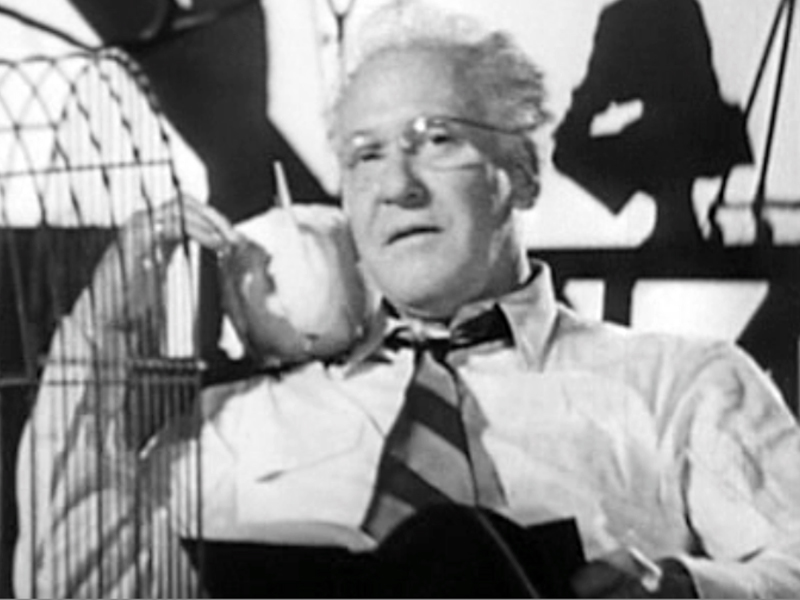 Screenshot of Erskine Sanford from the Citizen Kane trailer